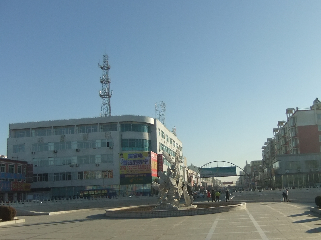 站前广场 - Railway Station Square - 2010.10